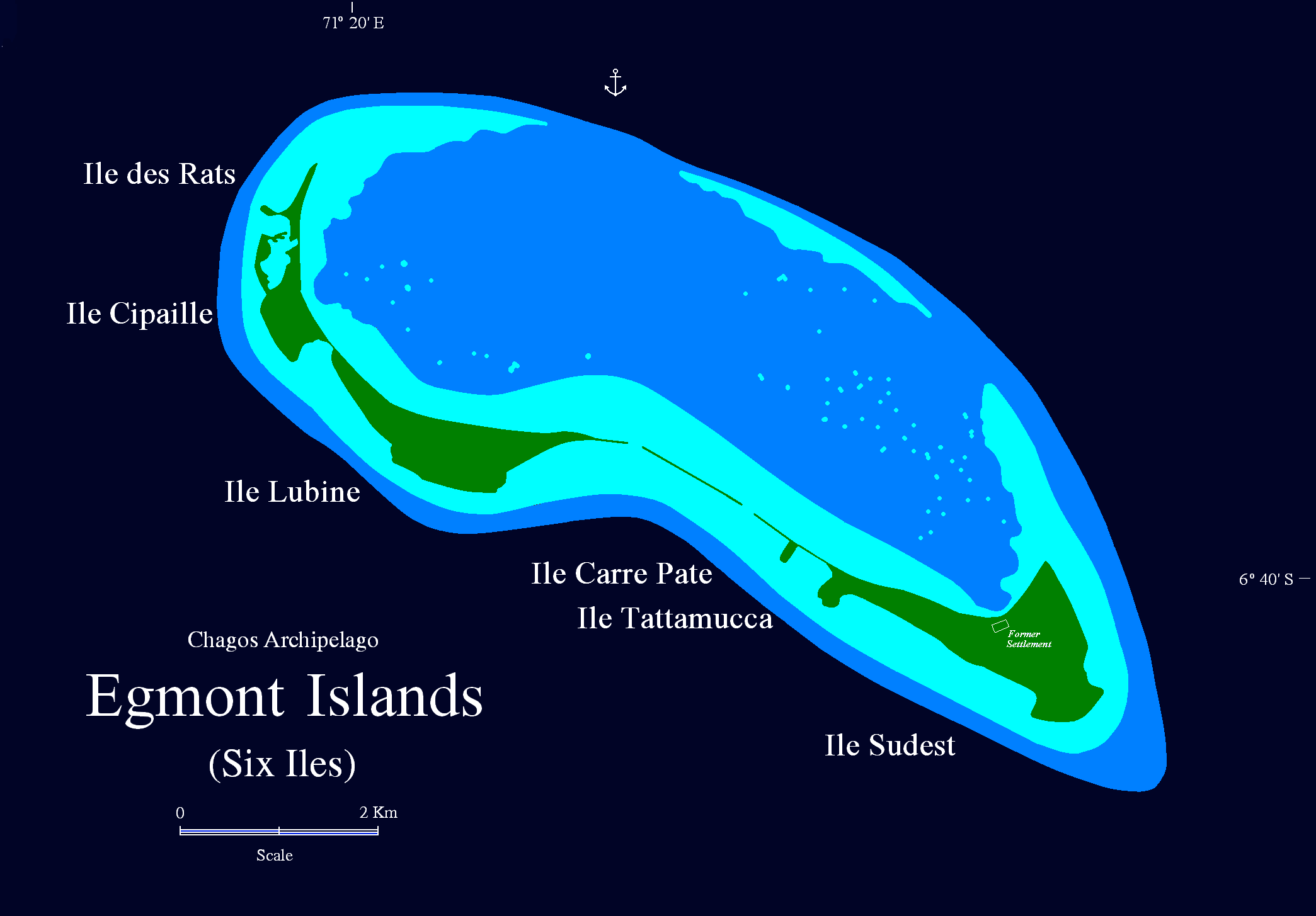 Map of Egmont Islands atoll, Chagos Archipelago, BIOT